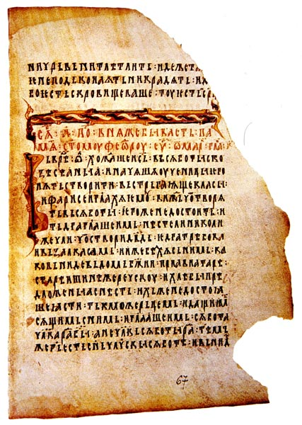 Fragment from the Macedonian manuscript of Jovan